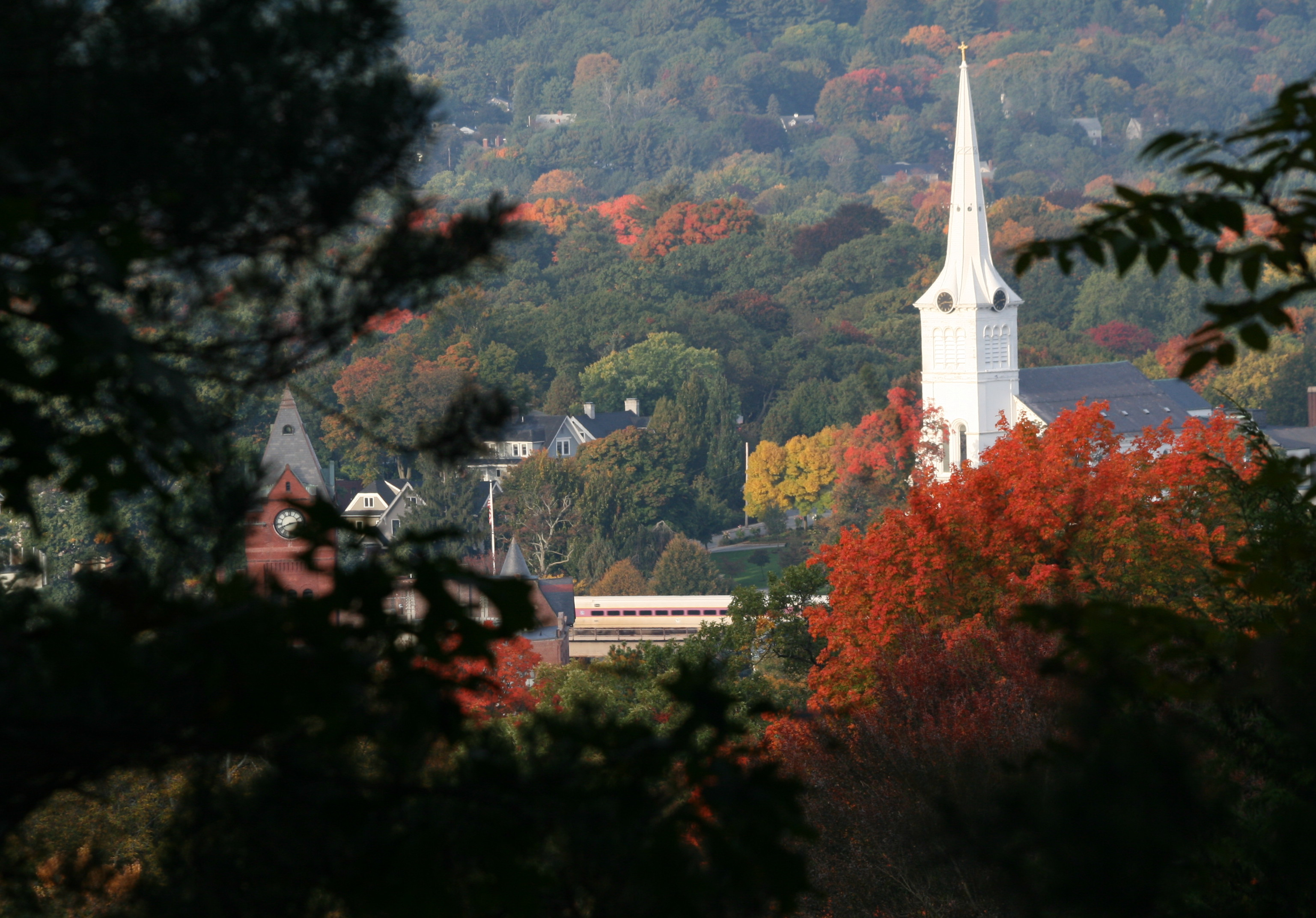 Downtown Winchester, Massachusetts, USA